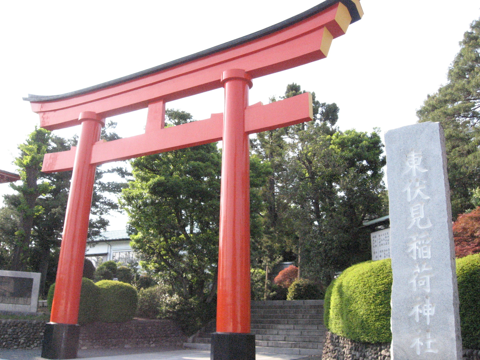 Higashifushimi Inari Shrine from Nishitokyo, Tokyo.